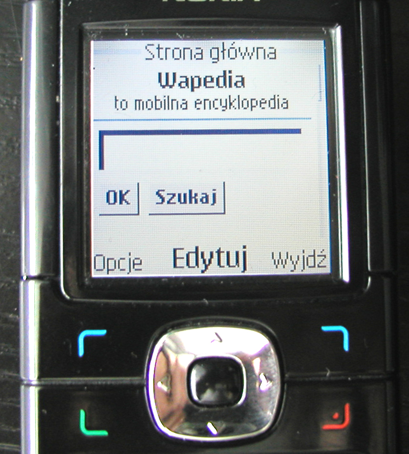 Wapedia Homse Site